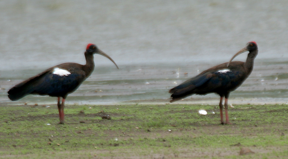 Black Ibis Pseudibis papillosa - Hindi: Baza, Kala baza, Karan kul, Sans: Krishna aati, Pun: Kala buza, Ben: Kalo dochara, Ass: Kola akohi bog, Guj: Kali kankanasar, Mar: Kala sherati, Ta: Karuppu aruval mookan, Te: Nalla kankanam, Mal: Chemthalayan ibis- at Pocharam lake, Andhra Pradesh, India.